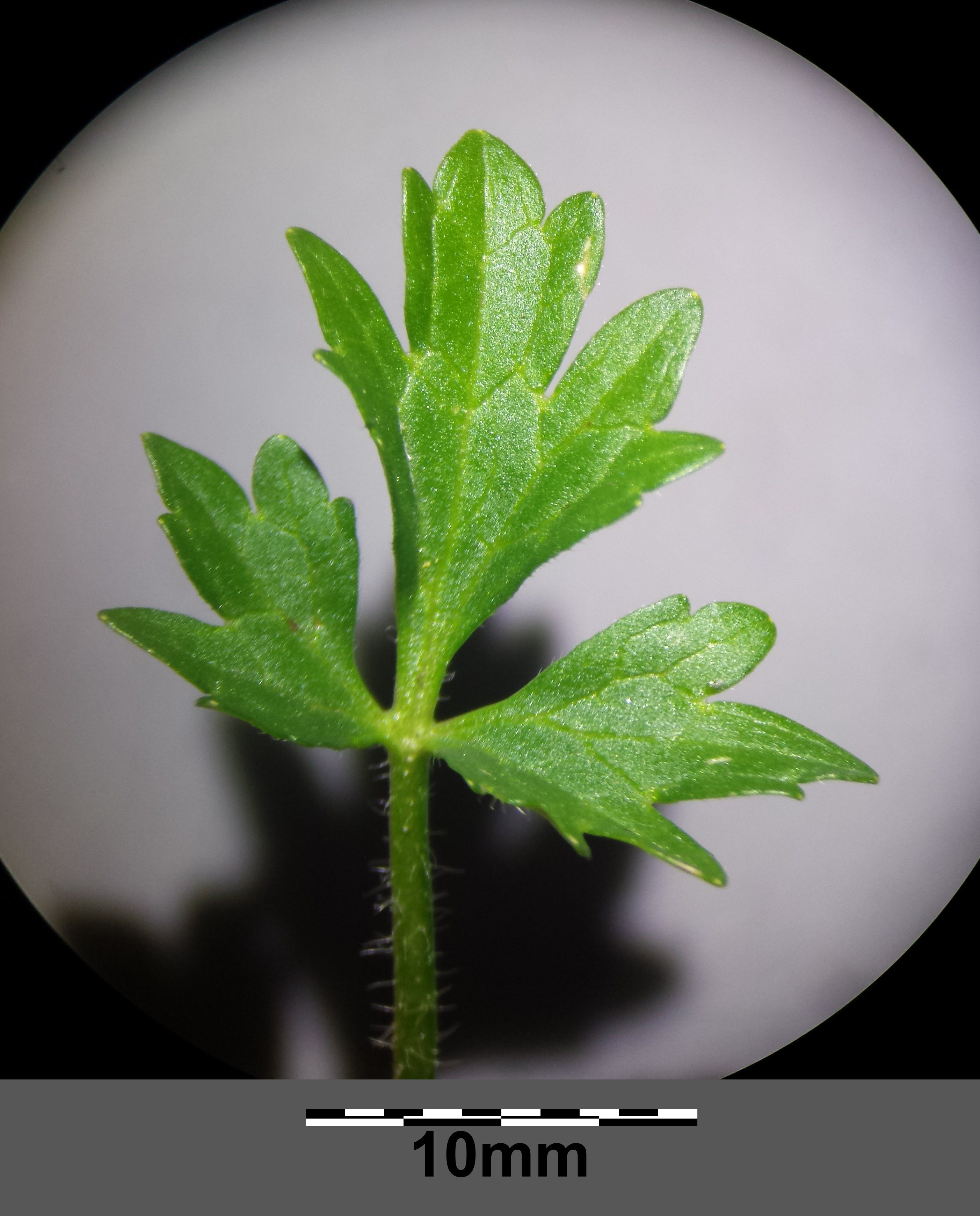 Base leaf Taxonym: Ranunculus sardous subsp. sardous ss Fischer et al. EfÖLS 2008 ISBN 978-3-85474-187-9 Location: Jedleseer Friedhof, Vienna-Floridsdorf - ca. 160 m a.s.l. Habitat: grave